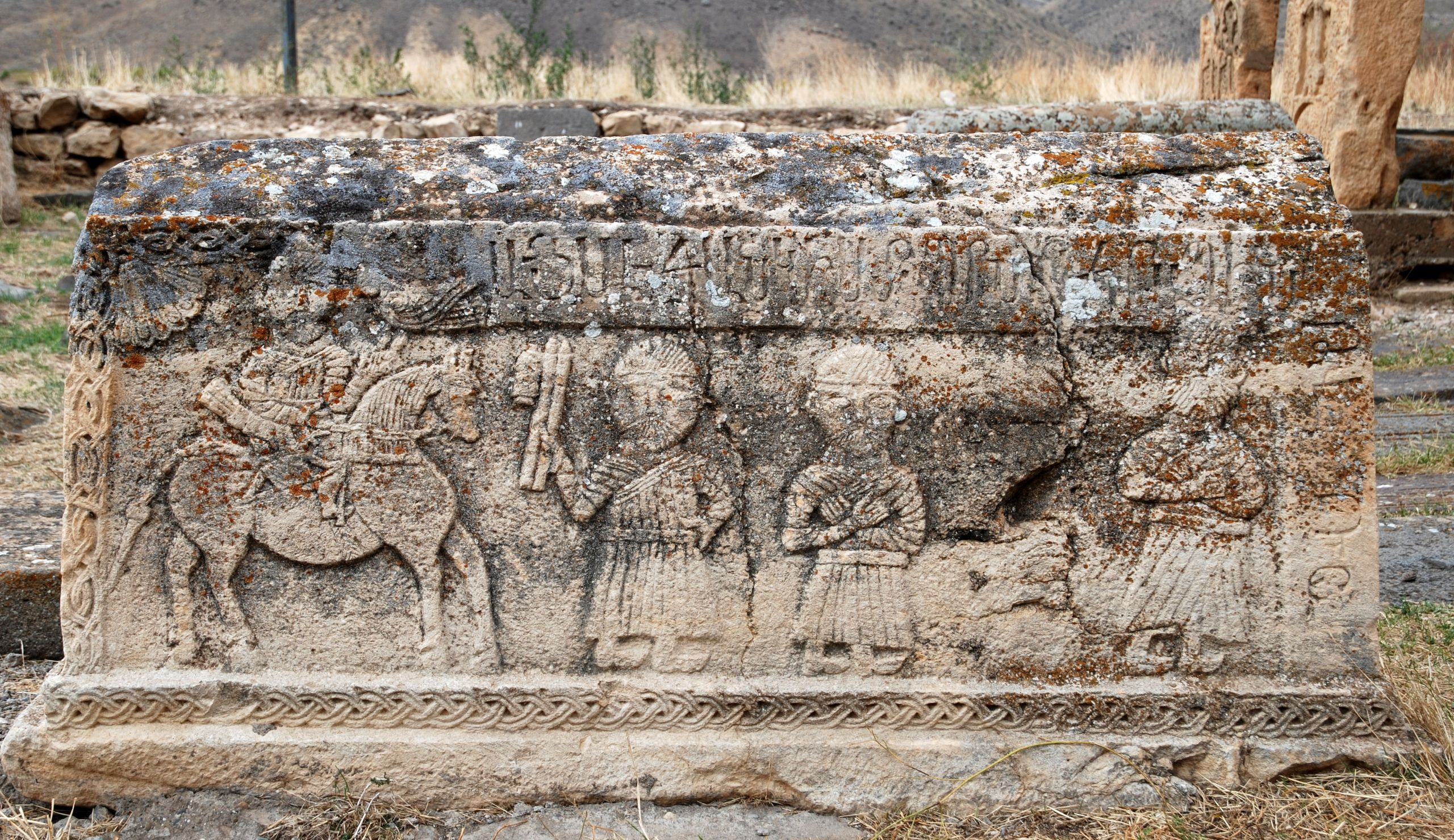 Areni church, headstone